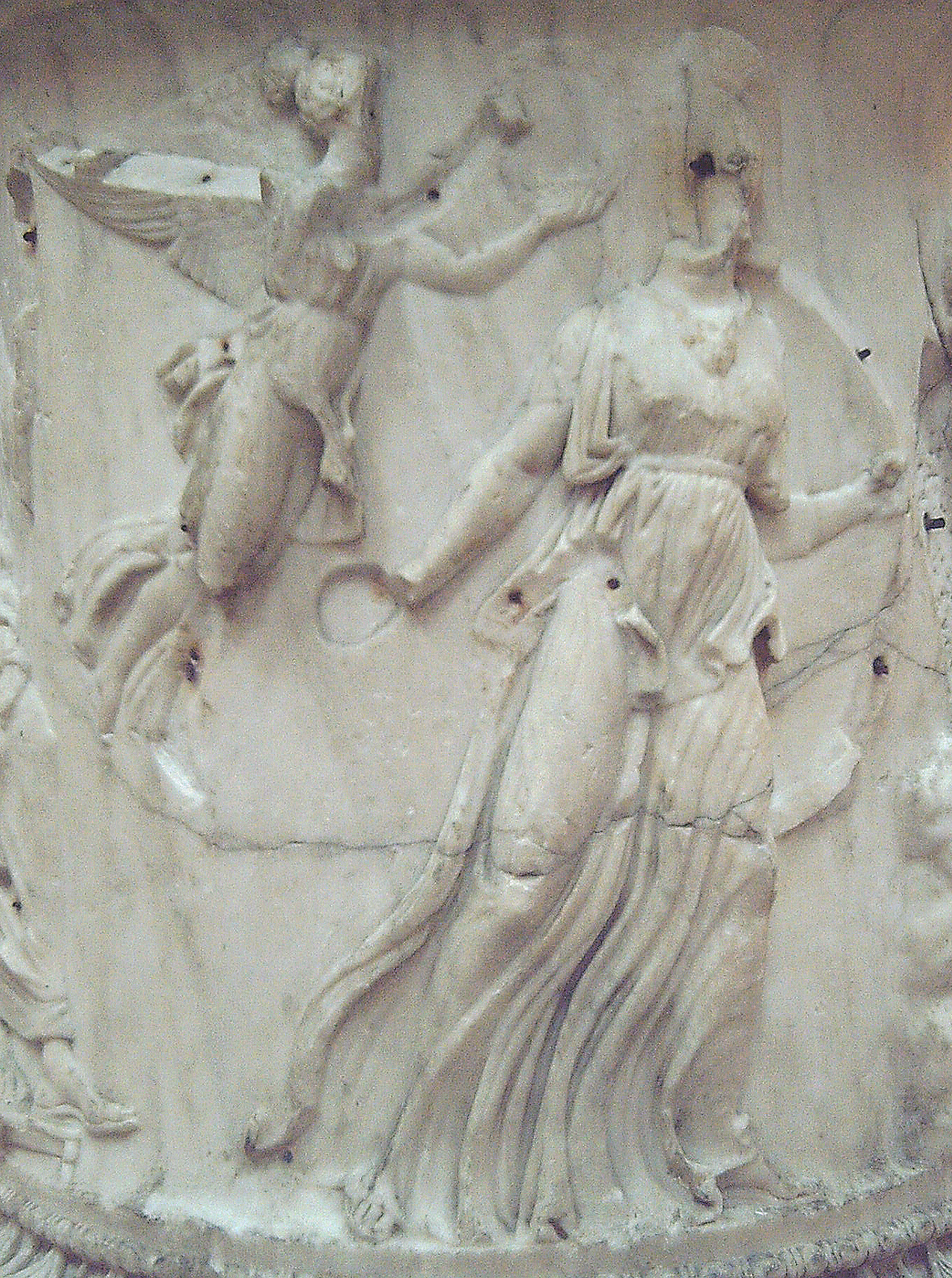 Nike crowning Athena.